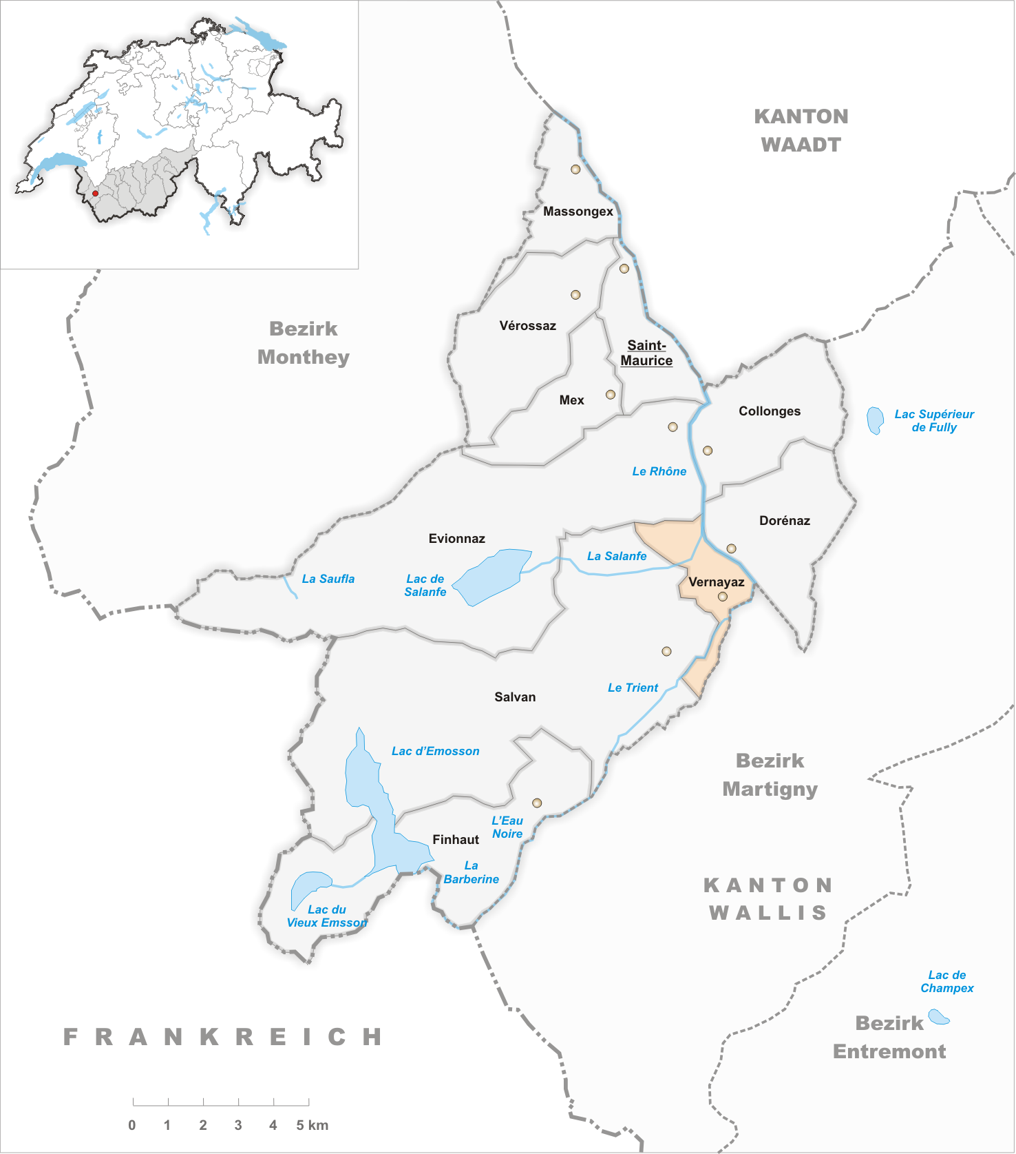 Municipality Vernayaz